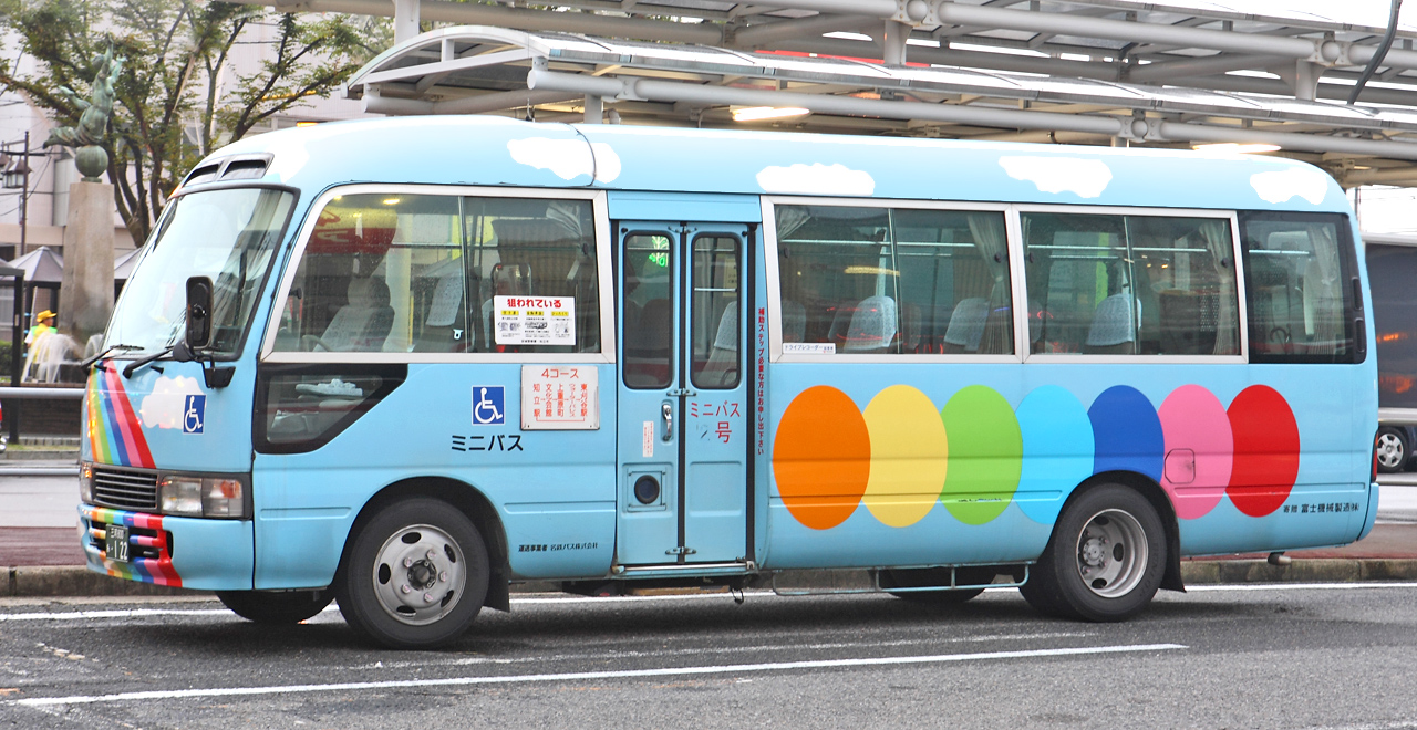 Toyota Coaster of Chiryu city Minibus ( HZB50 )